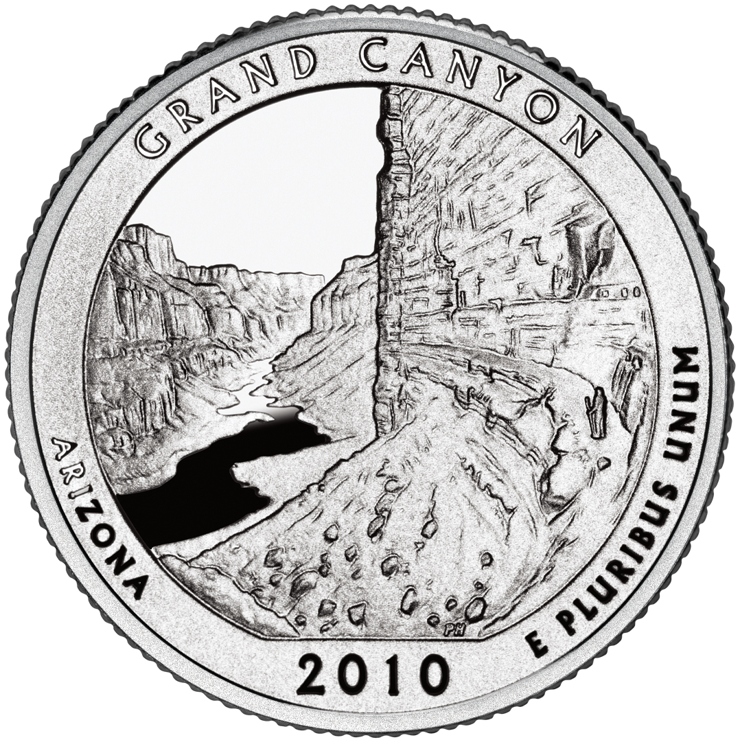 2010 Arizona Quarter